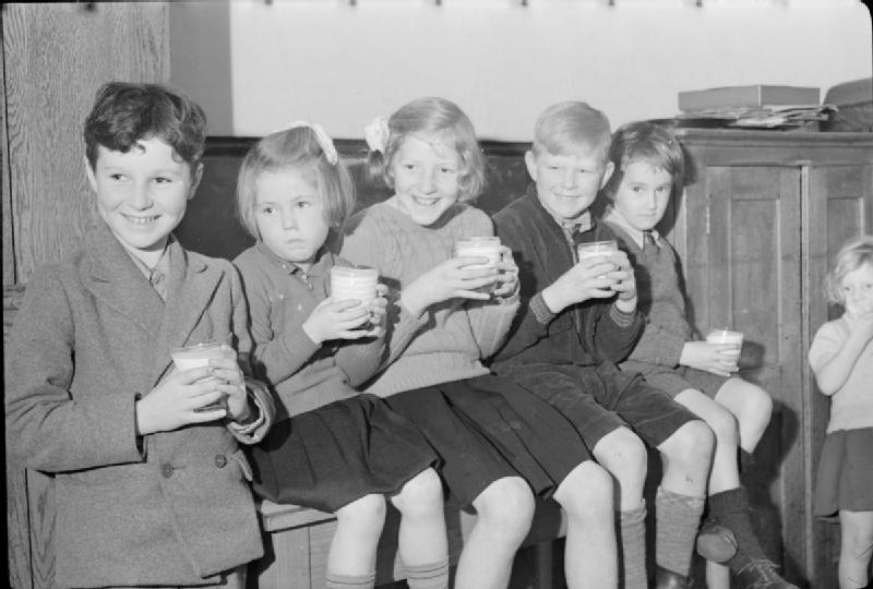 Chipstead Council School- Education and Communal Feeding, Chipstead, Surrey, 1942 Five children enjoy their morning milk in a classroom at Chipstead Council School. Left to right, they are: John Ramsden, Sheila Crouch, Una Funnell, Ronald Merritt and Malcolm Reade.